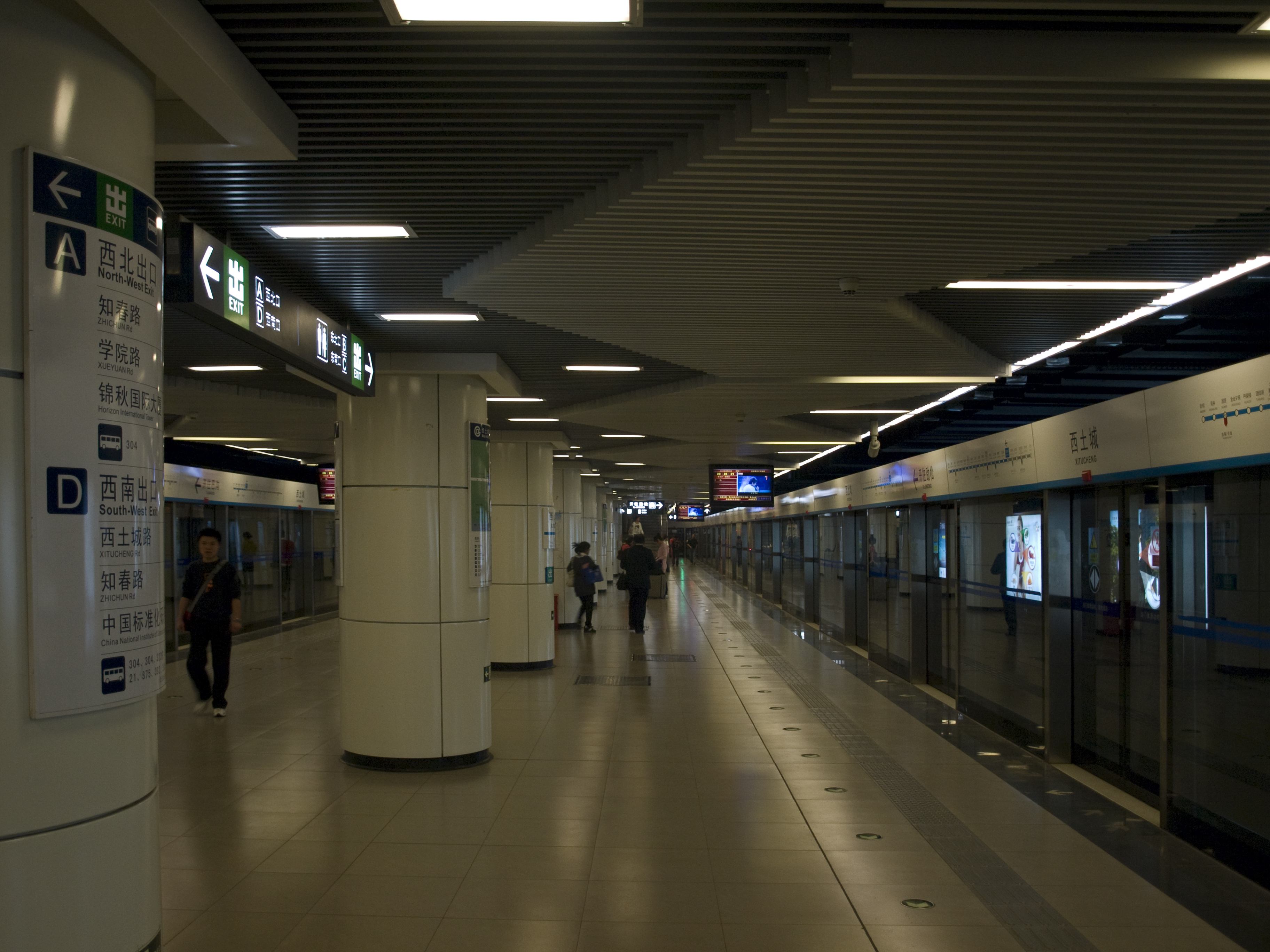 Xitucheng station, Beijing Subway